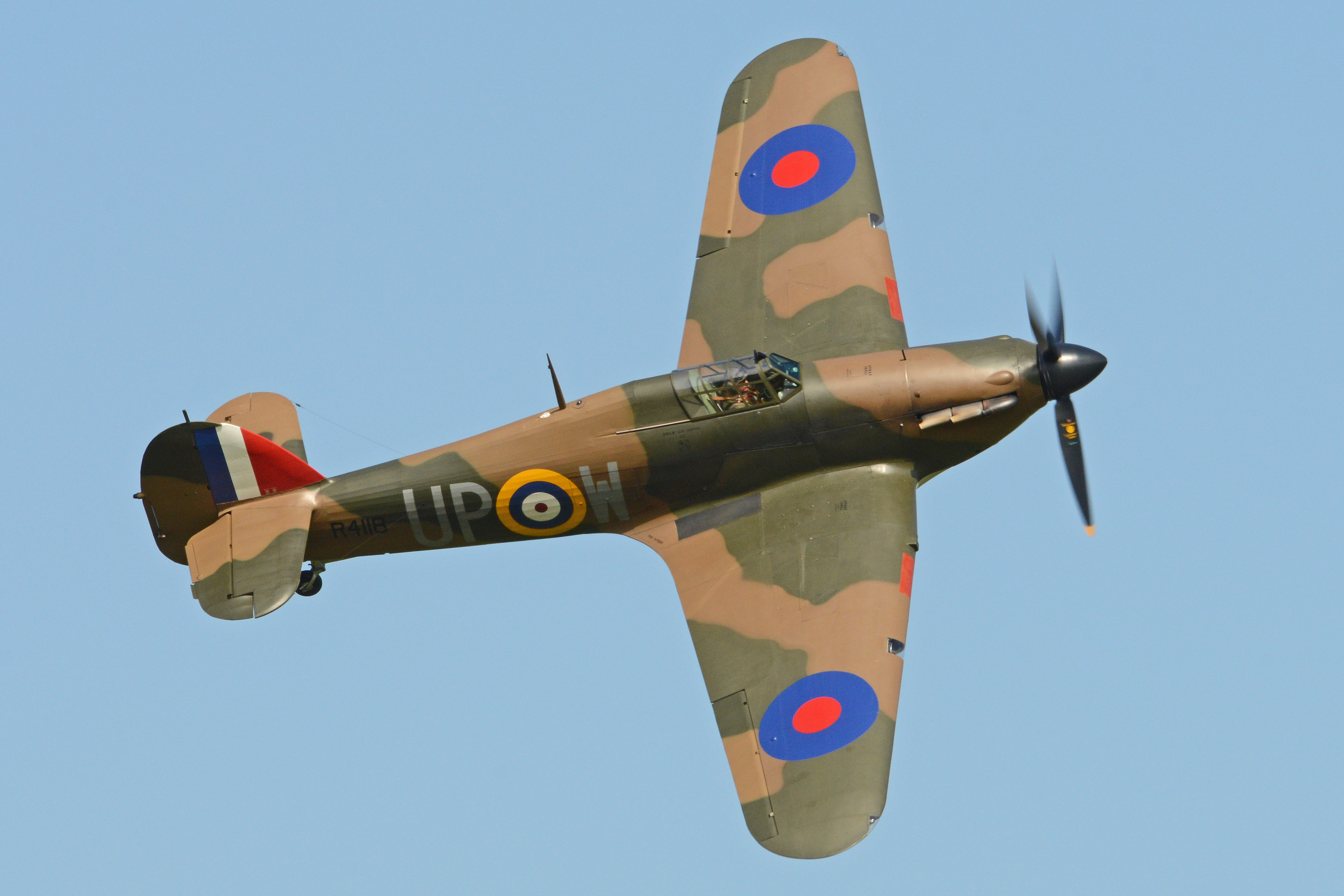 c/n G5-92301. This genuine Battle of Britain Hurricane changed owner in 2015 and is now based at Old Warden. She is seen being beautifully displayed by Stu Goldspink at the Shuttleworth 2016 Season Premier Airshow. Old Warden, Bedfordshire, UK. 08-5-2016